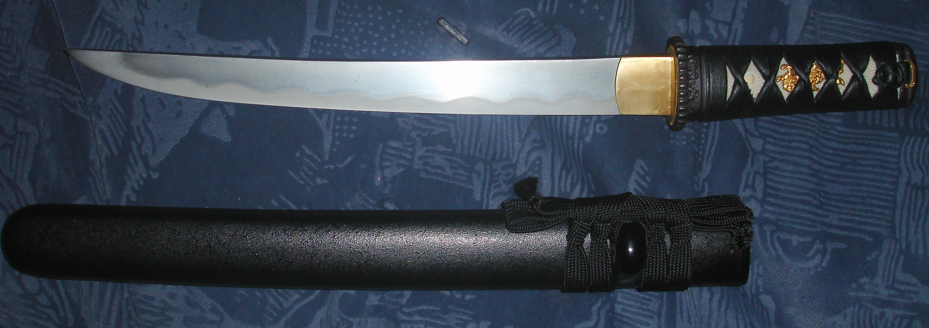 Hanwei "Practical Plus Tanto" (SH2259). 2007 photograph, production of the early 2000s (c. 2004?) Comment by uploader: "This is from a series of photos I took of an authentic Tanto I bought a few years back" This particular weapon was still in production as of 2019, sold (by online dealers/distributors) in the price range of about USD 170–200. [1] [2] [3] [4]